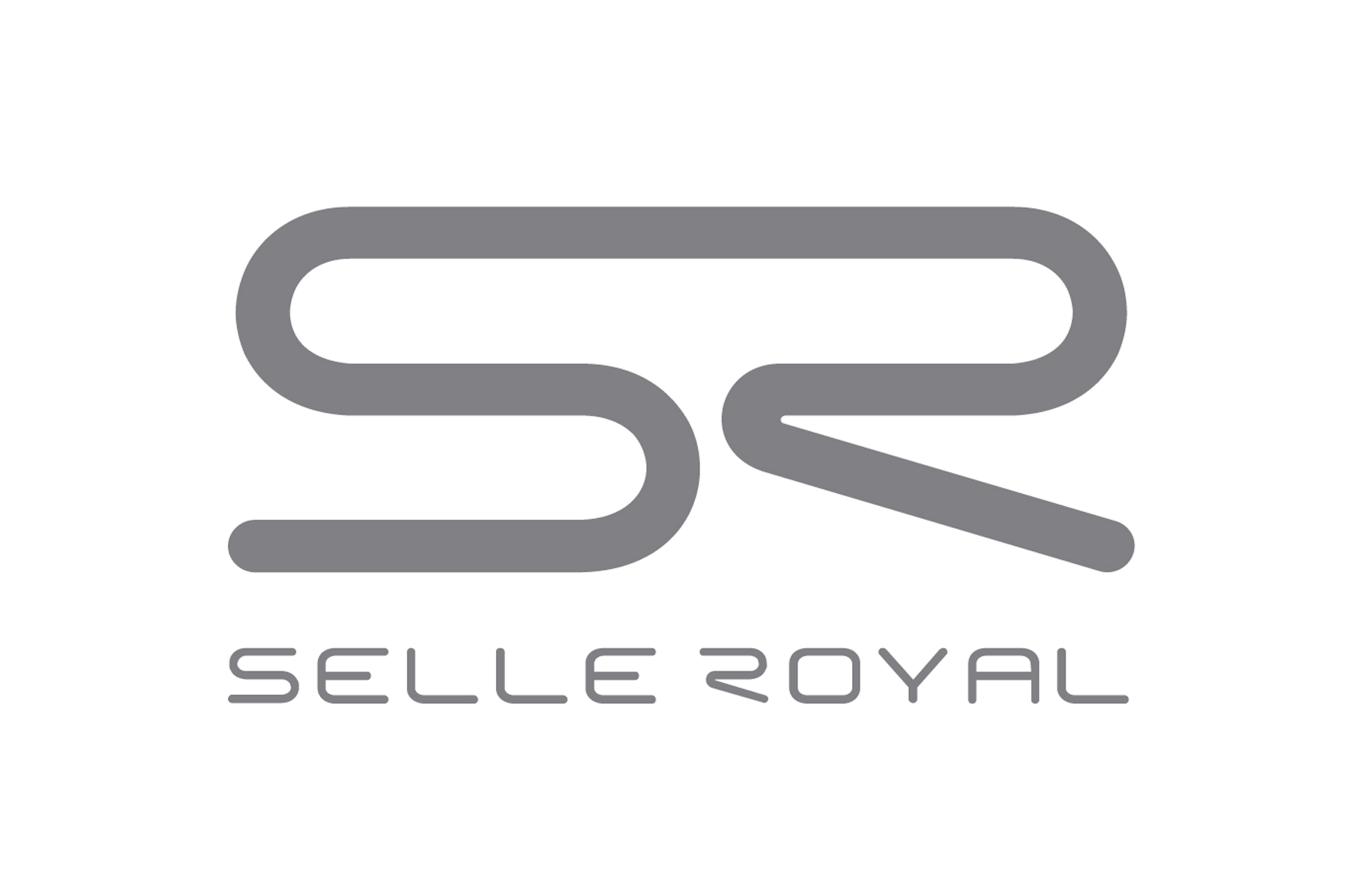 Selle Royal logo